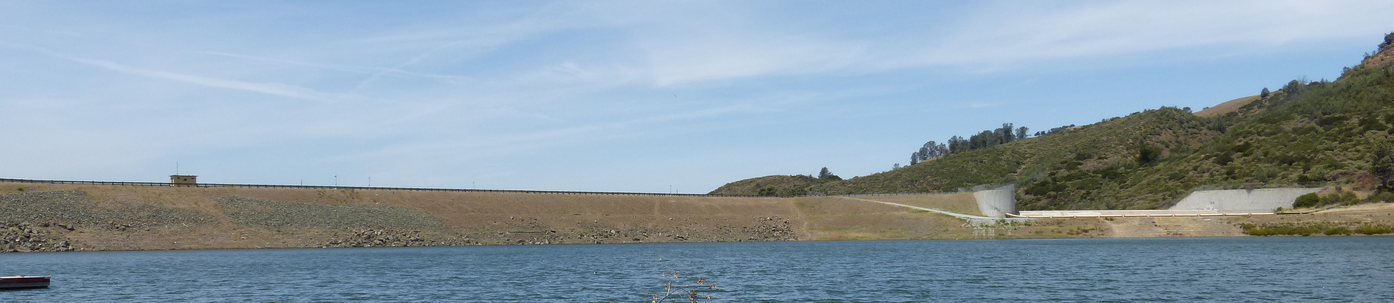 A photo of the Leroy Anderson Dam in Santa Clara County, California, viewed across Anderson Lake in 2014. The dam spillway is visible towards the right.